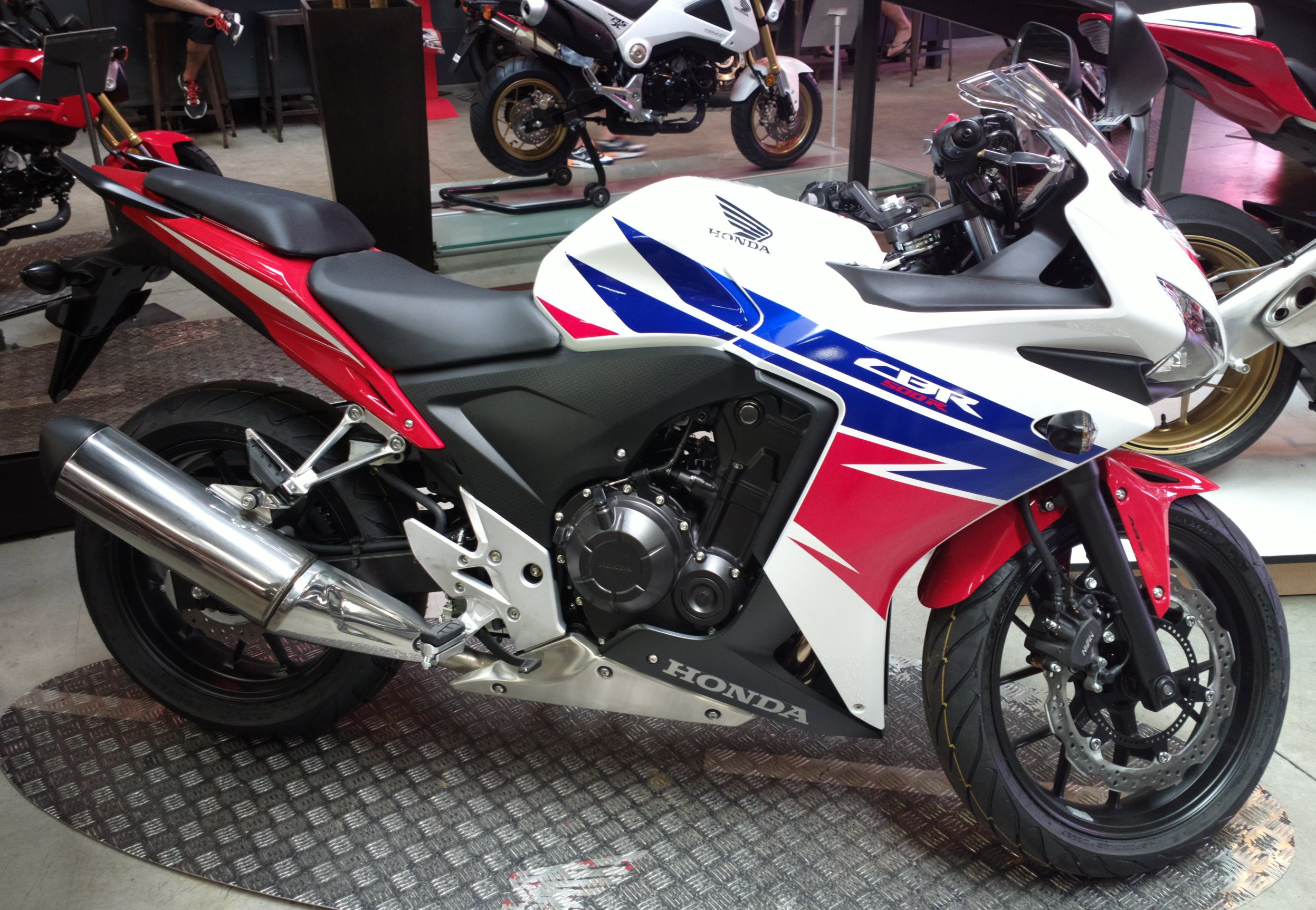 Honda CBR500 R